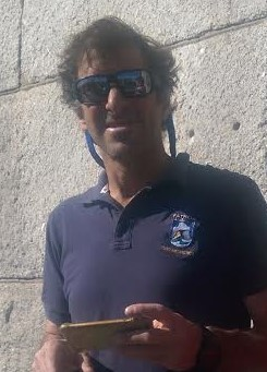 2016, Brooklyn Bridge, NYC